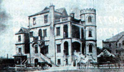 Chen Gong Zhe house donated for Chin Wo